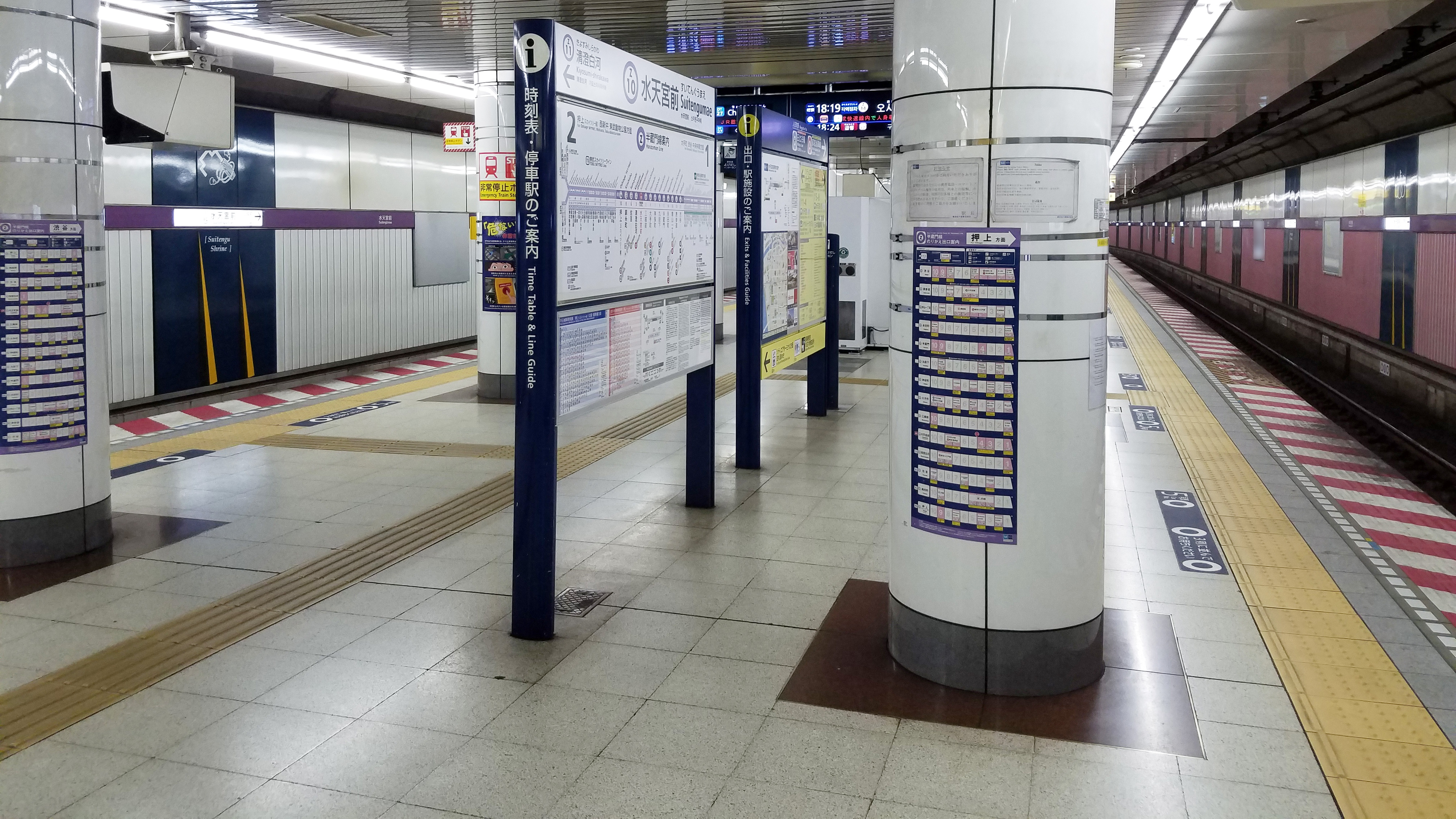 The platform at Suitengūmae Station on the Tokyo Metro Hanzōmon Line in Chūō city, Tokyo, Japan